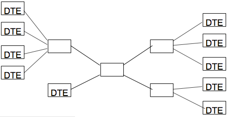 A simple illustration for a more complex startopology in a computer network